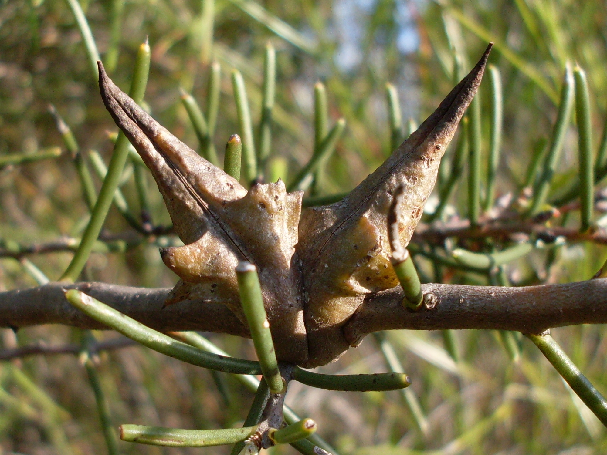 Dagger Hakea (Hakea teretifolia) fruit probably looks like an old fashioned dagger. Royal National Park, NSW Australia, May 2009.